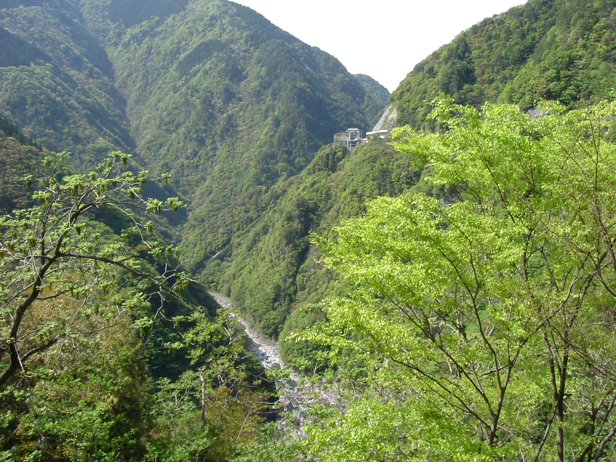 Iya-onsen-spa